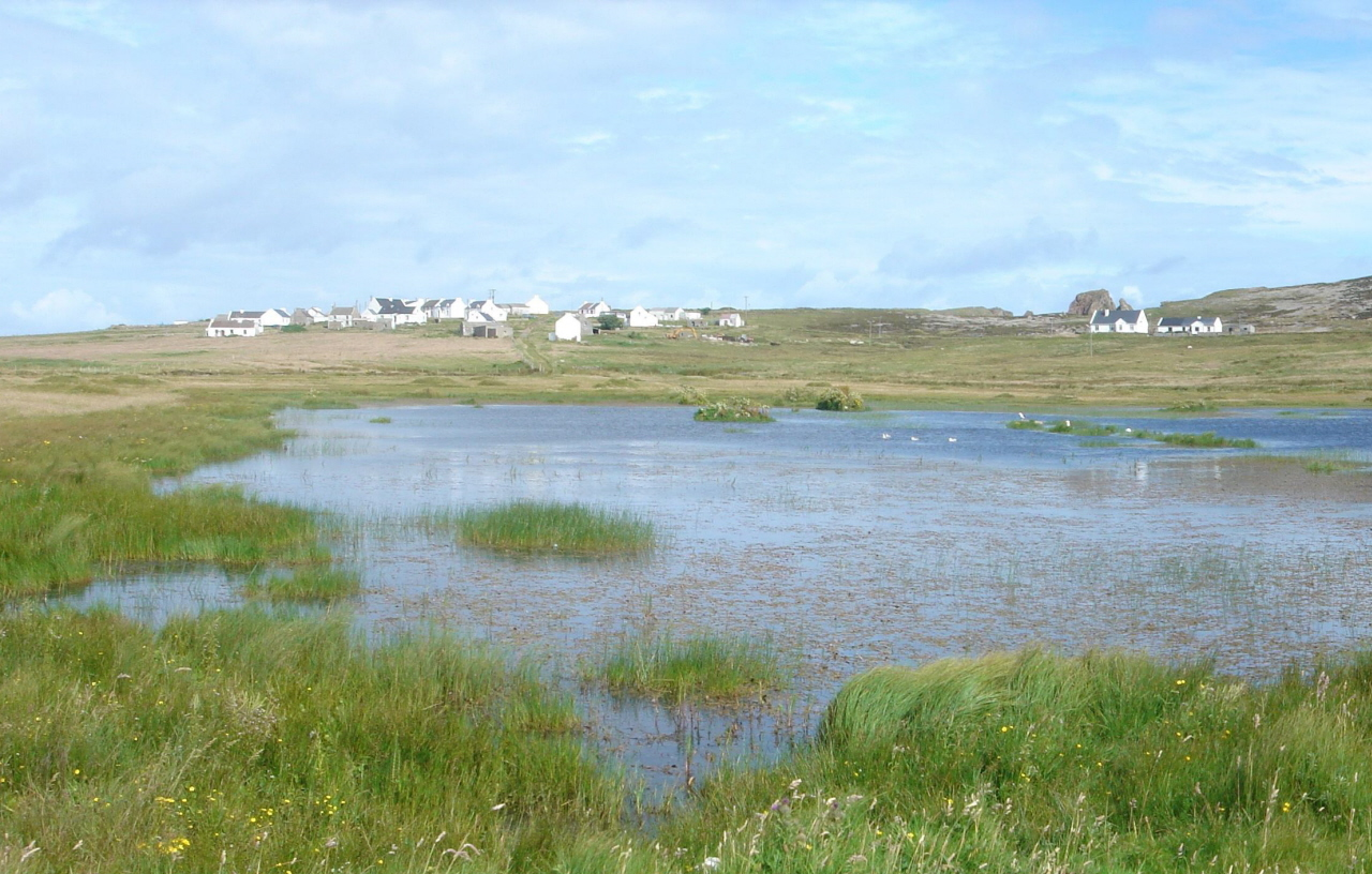 View of An Baile Thoir from An Loch Thotr [Tory Island/Oilean Thoraig - Co Donegal - Ireland/Eire]